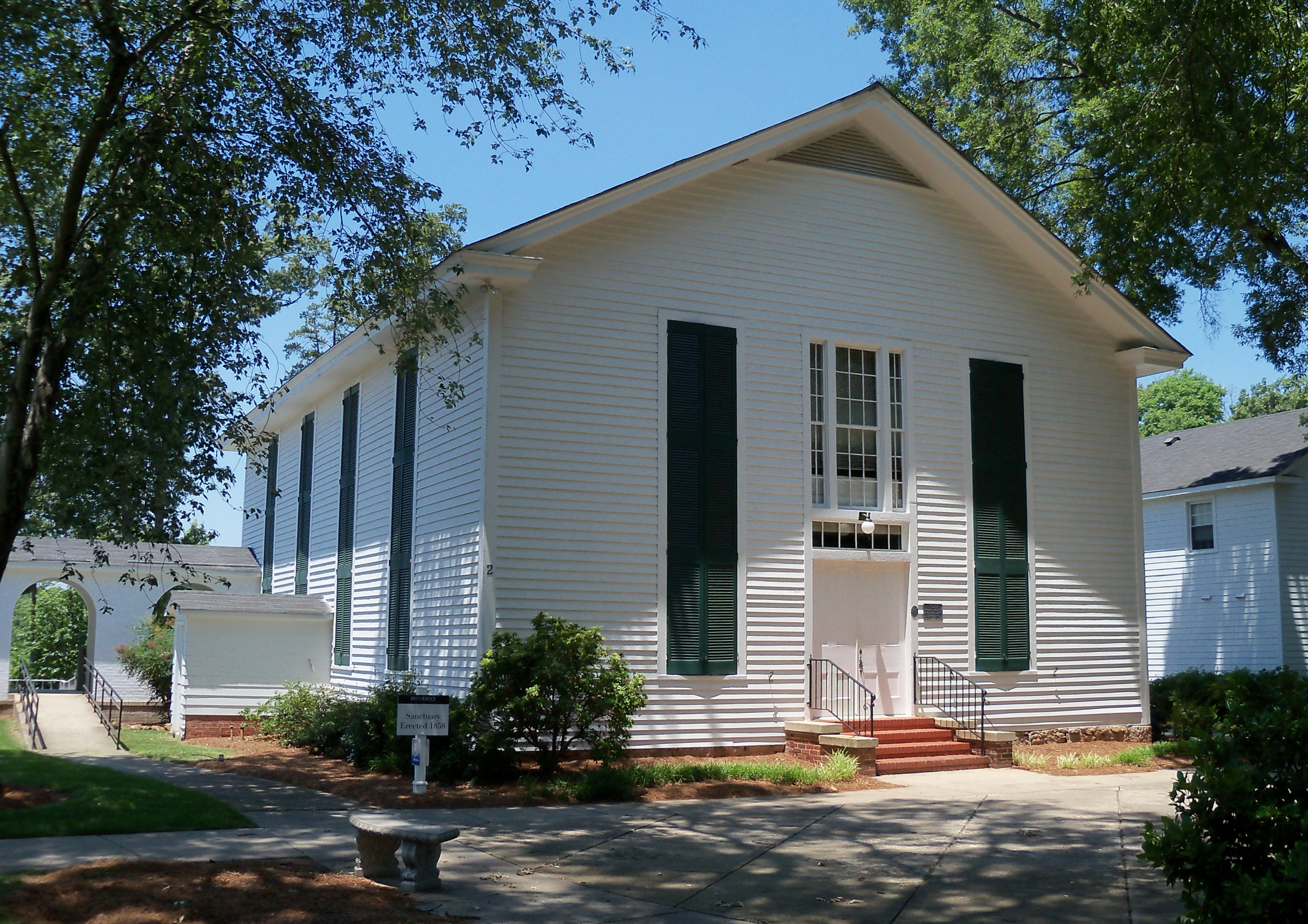 Building at the Providence Presbyterian Church near Charlotte, North Carolina, USA.